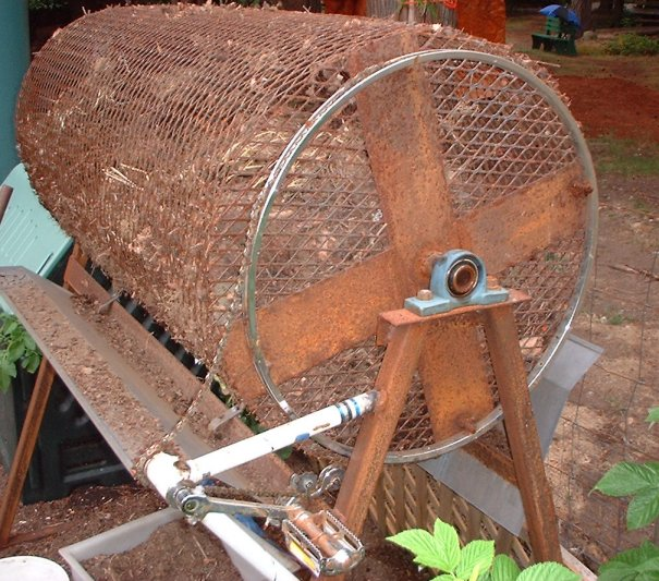 Compost tumbler, home scale, made of recycled material